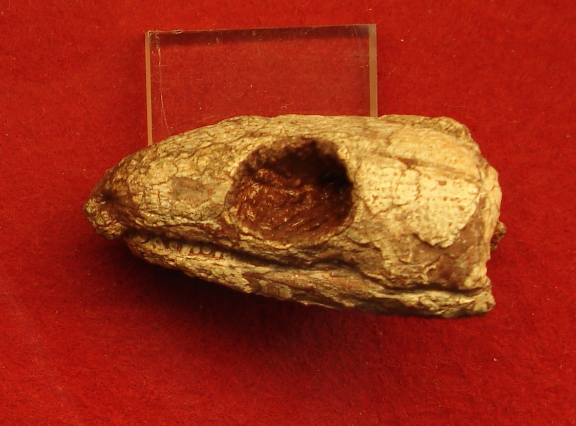 Skull of “Captorhinus isolomus” (junior synonym of Captorhinus aguti), from the early Permian of probably North Texas, since Ferdinand Broili, former curator of the Staatssammlung für Paläontologie und Historische Geologie in Munich, brought some fossils from there to Munich during the early 20th century.